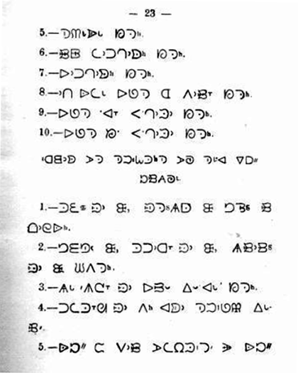 Page from a prayer book using the Carrier , depicting part of the ten commandments